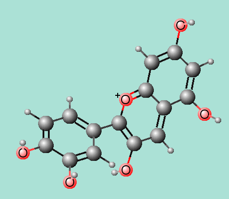 Molécule in 3D of the Cyanidin (2-(3,4-Dihydroxyphenyl)-3,5,7-trihydroxy-1-Benzopyrylium)